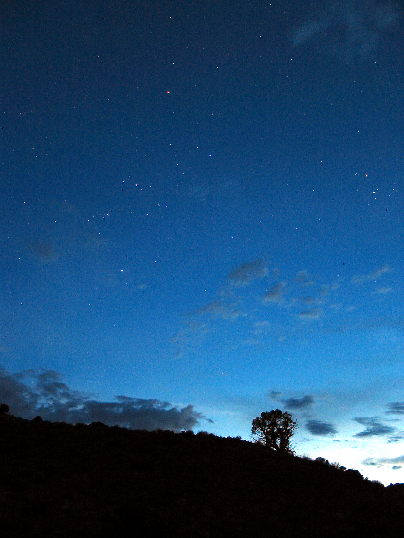 The star constellation orion in the sky above arches NP, Utah, USA.